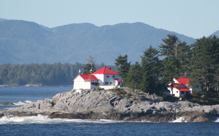 Ivory Island Lightstation as seen from the Inside Passage.